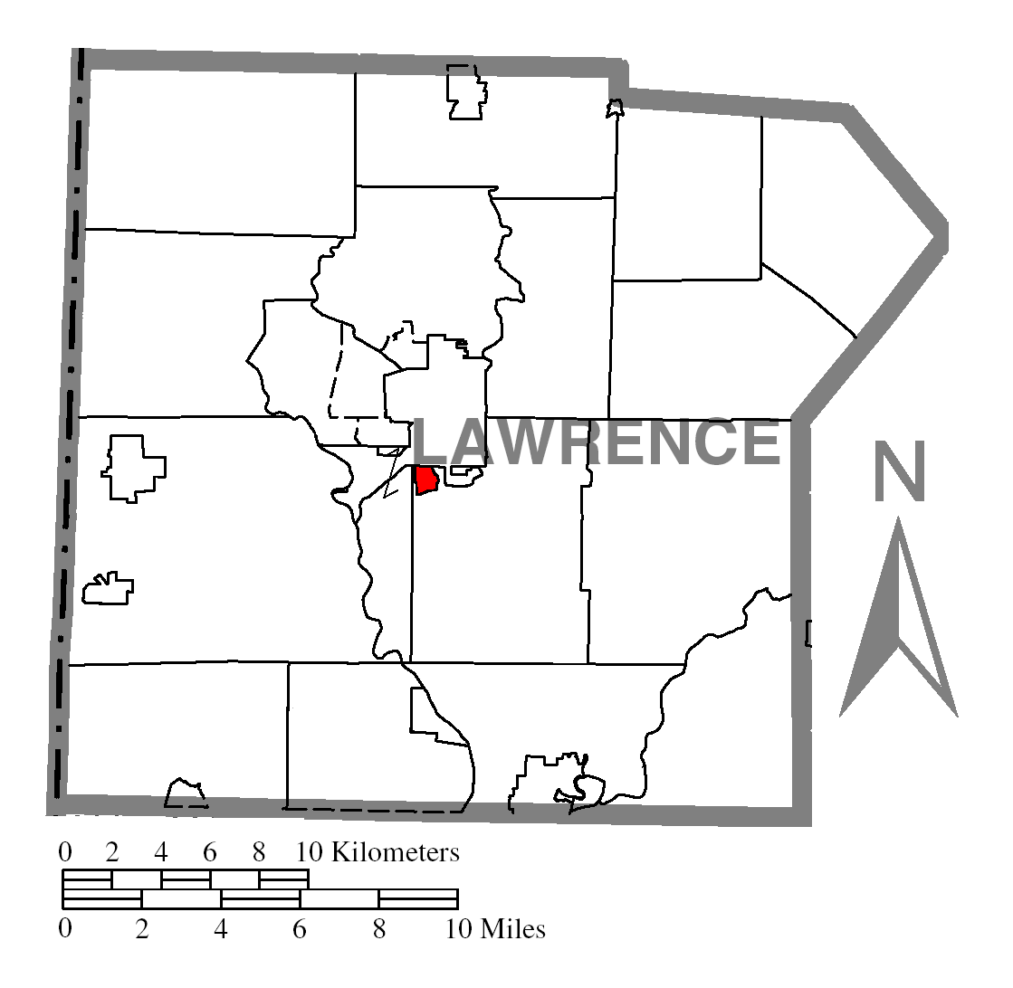 Map of Lawrence County higlighting South New Castle.